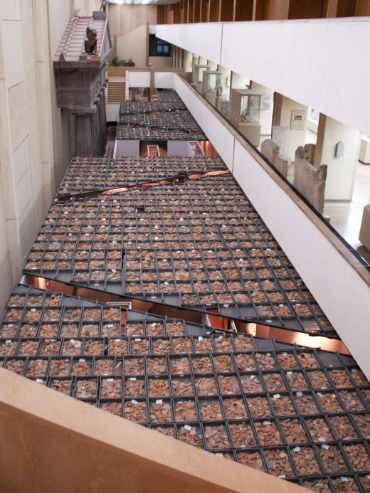 Istanbul Archaeological Museum-Crocks.jpg